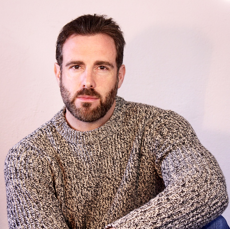 Actor